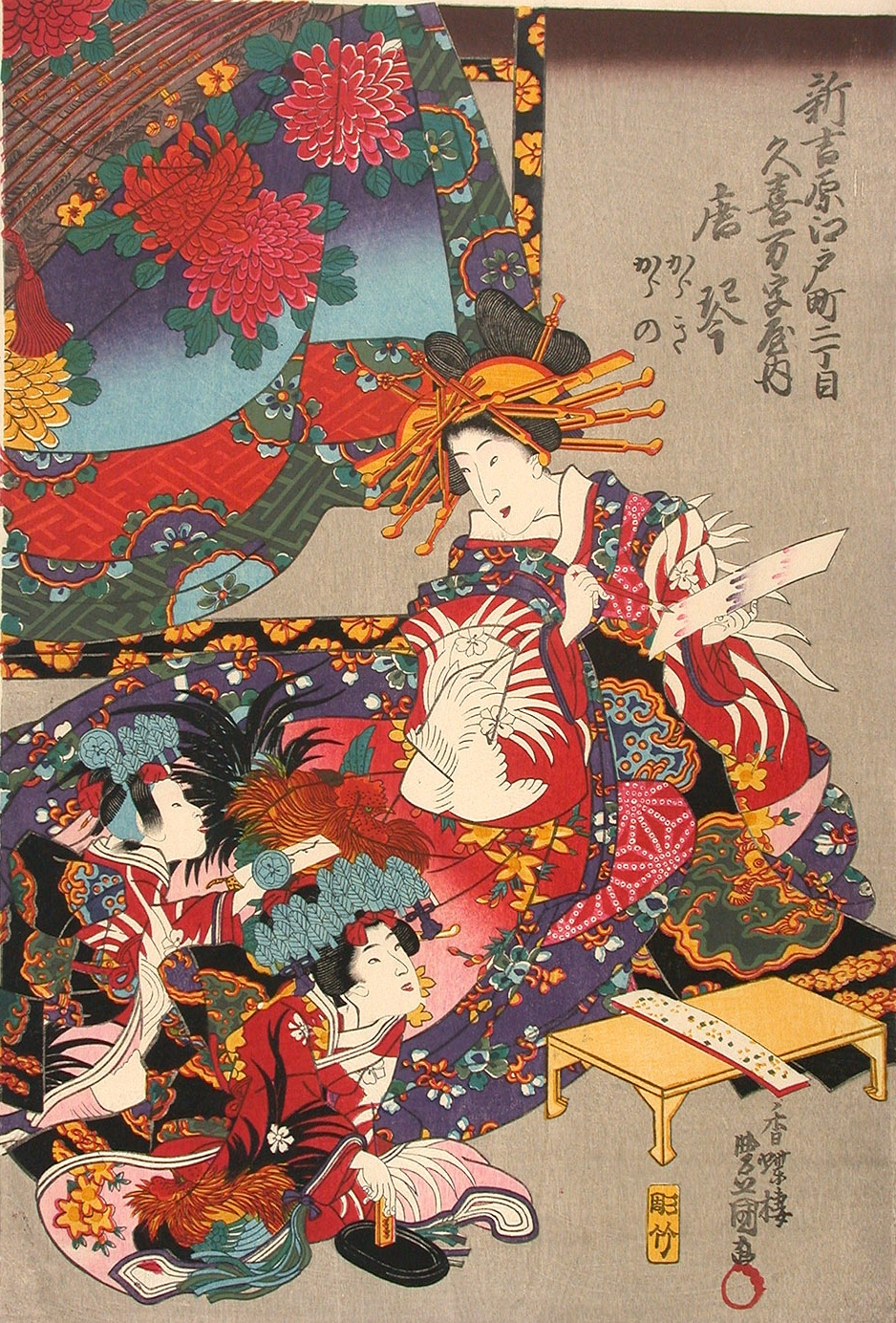 The courtesan Karakoto, kamuro Karaki and Karano of the house Kukimanji